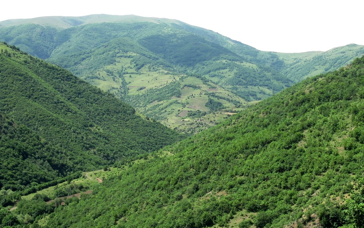 For Kaleybar County